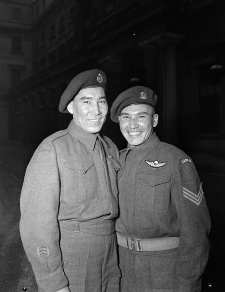 Sergeant Tommy Prince (R), M.M., 1st Canadian Parachute Battalion, with his brother, Private Morris Prince, at an investiture at Buckingham Palace, 12 Feb 1945.